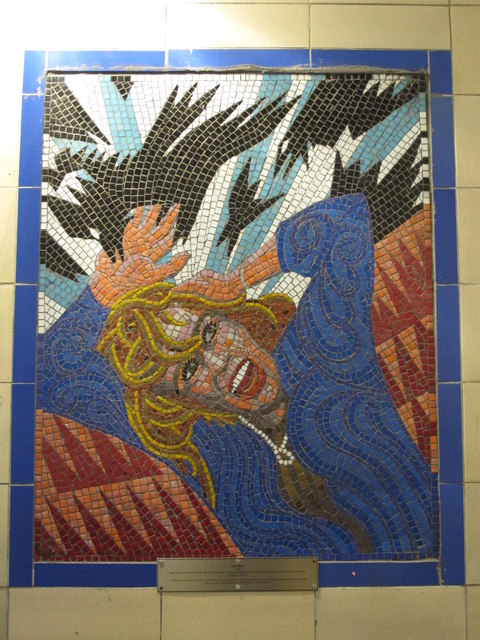 Leytonstone tube station - Hitchcock Gallery: The Birds (1963)